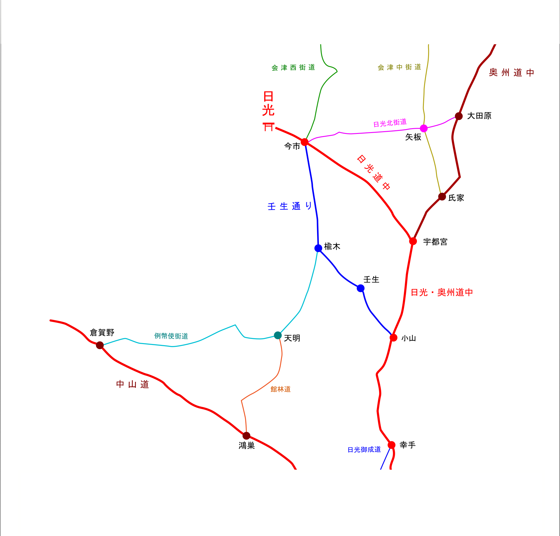 Map of the old roads of Nikko, Route of modern times.Red”日光”is Nikko.